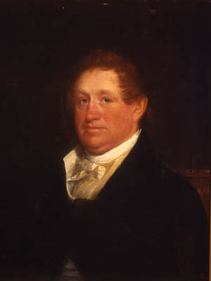 Kentucky state senator Peyton Short